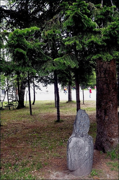 The Stone in Tomsk State University Garden